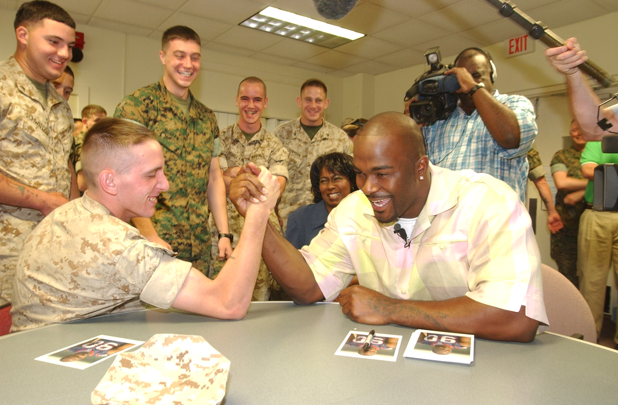 Lance Cpl. Johnny R. Burra, of Rochester, N.Y., arm wrestles 2006 #1 NFL Draft, Houston Texans defensive end Mario Williams, Friday. 'He's not so big,' joked Burra, after Williams kindly called the competition a draw. Burra suffered a leg injury Sept. 27, 2005, by an improvised explosive devise blast while with 2nd Battalion, 2nd Marine Regiment, Company G, 2nd Marine Division, in Al Karmah, Iraq. Williams - whose brother-in-law was killed in a vehicle accident in Iraq March 24, 2003 - and his mother, Mary, visited the Wounded Warrior barracks at MCB Camp Lejeune to honor service members who are 'guaranteeing our freedoms.'